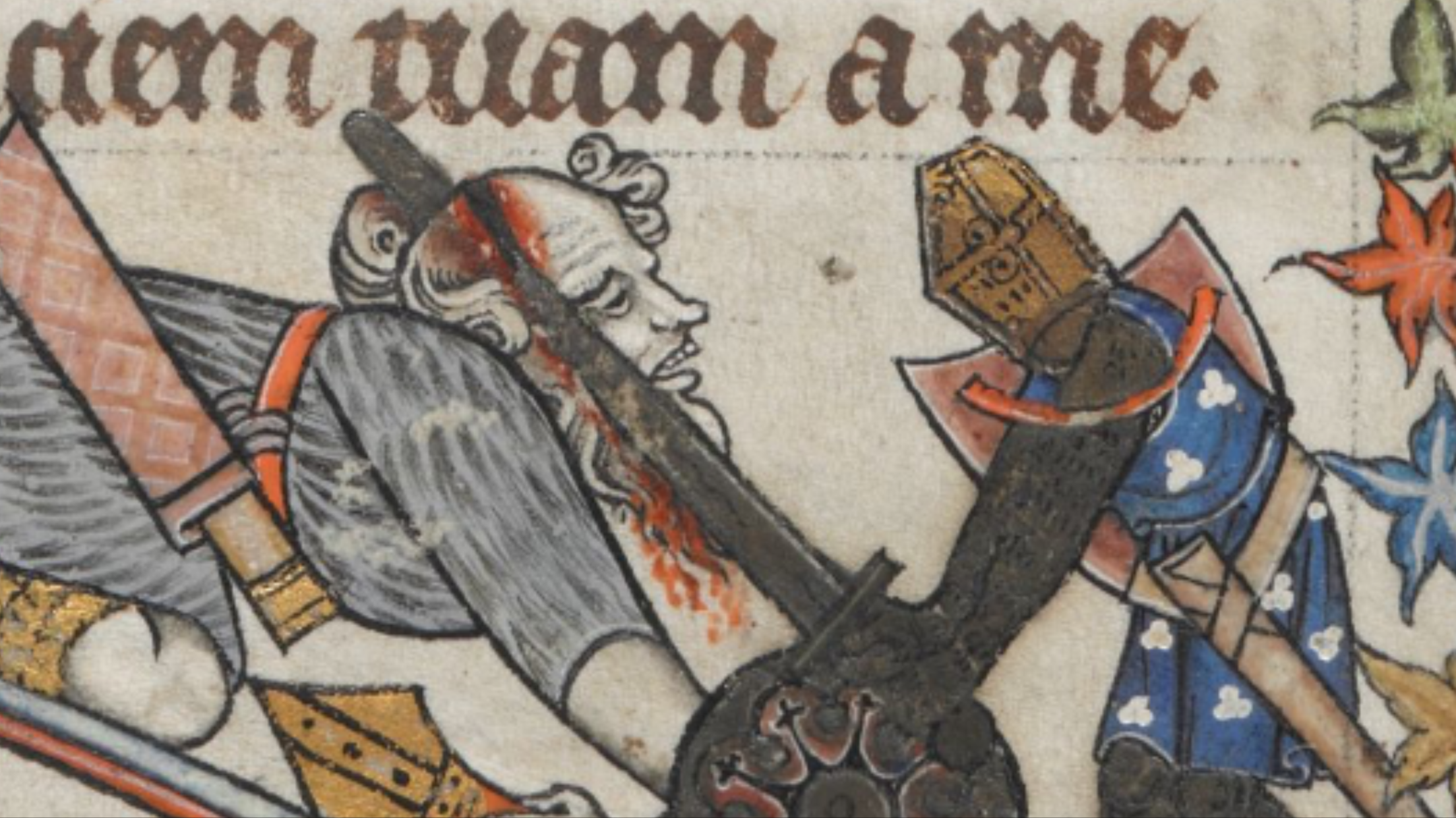 Image derived from digitized manuscript from the British Library